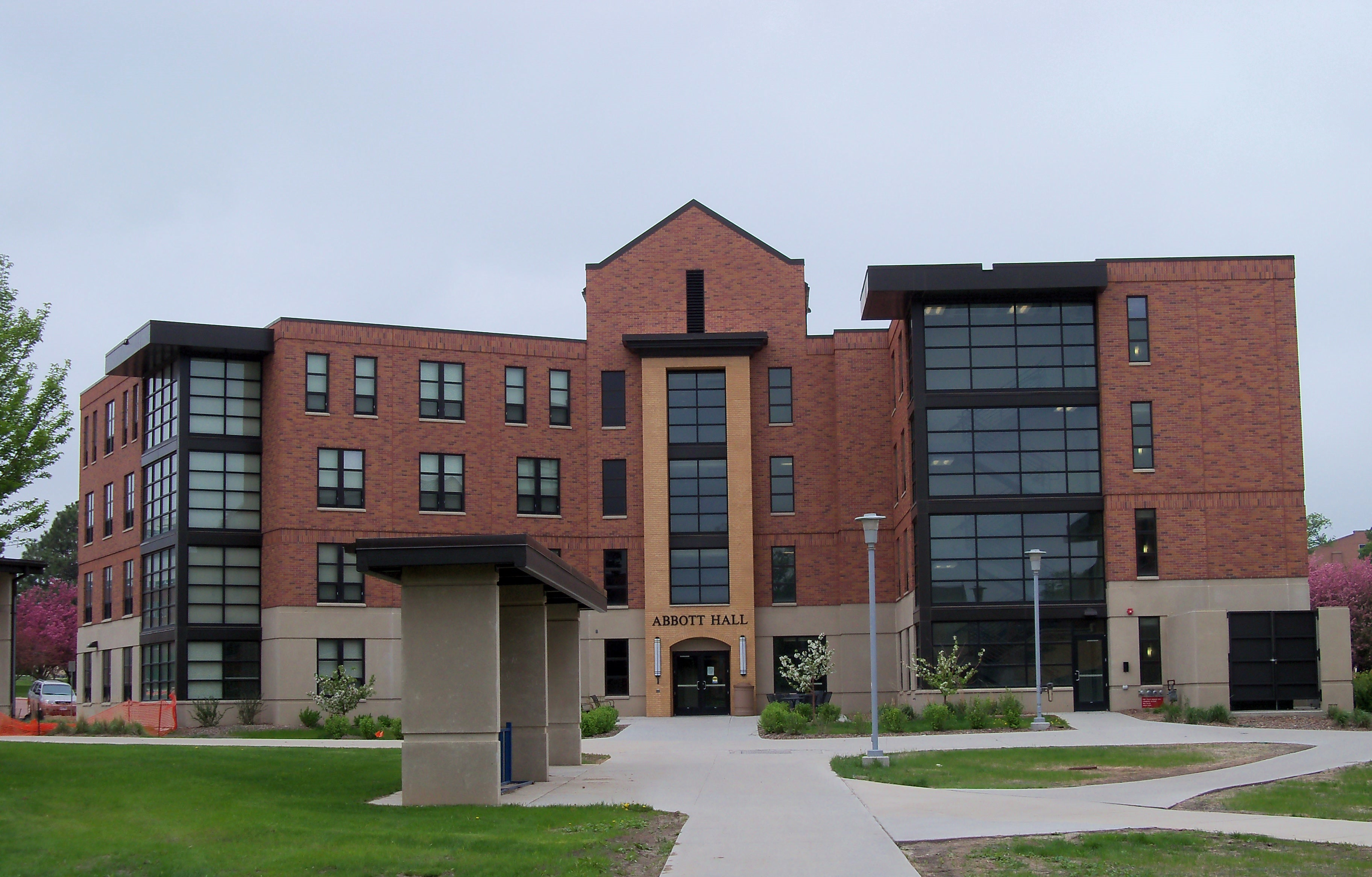 Abbott Hall on the campus of South Dakota State University in Brookings, South Dakota, USA.